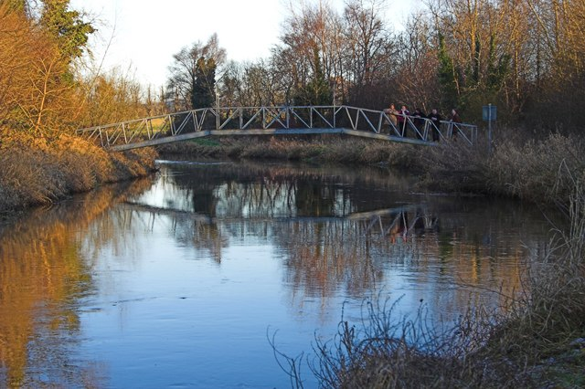 River Erkina Footbridge on the River Erkina about 1Km west of Durrow